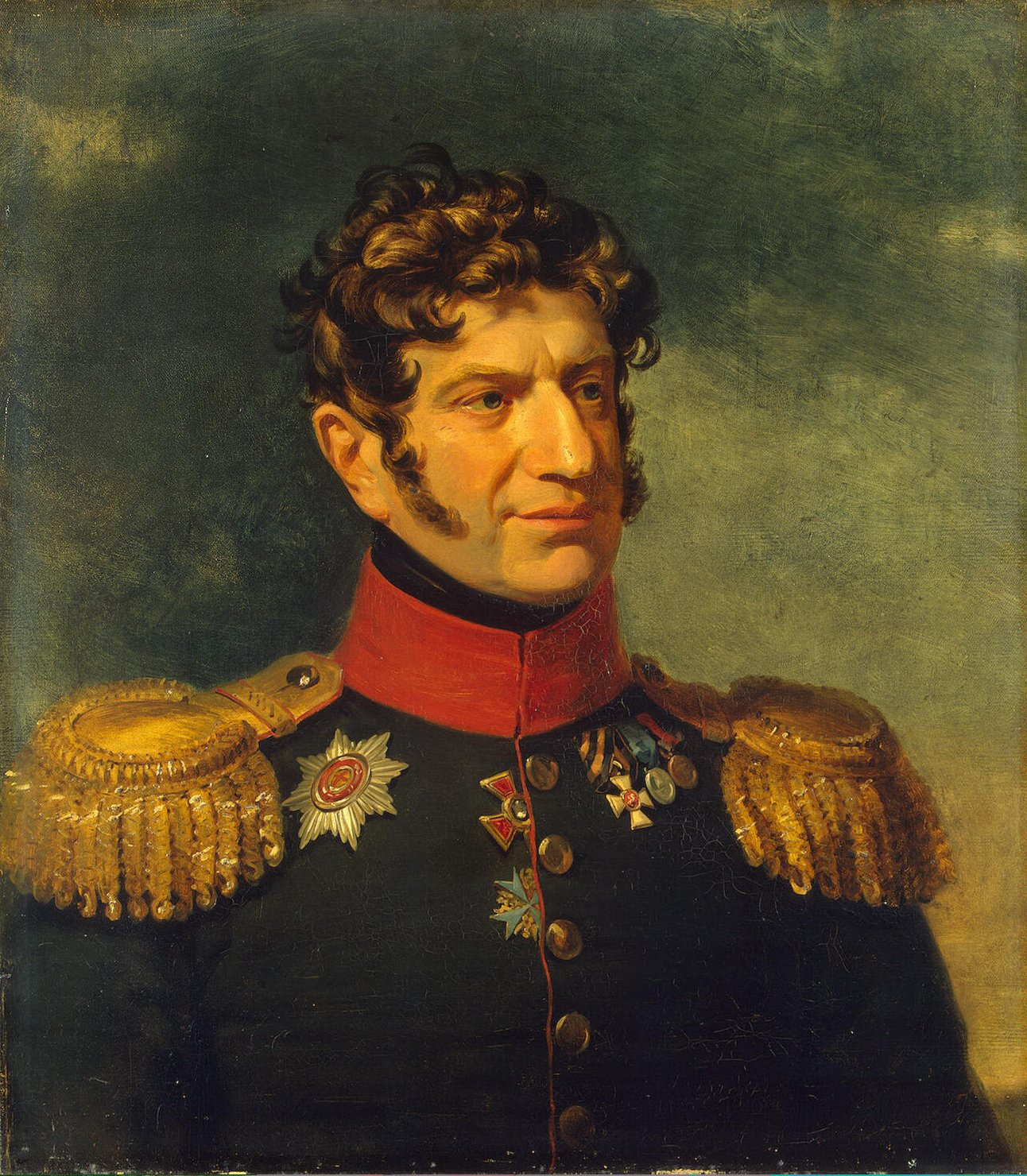 Fyodor Fyodorovich Rozen 4-th (28.06.1767 – 05.07.1851) russian general